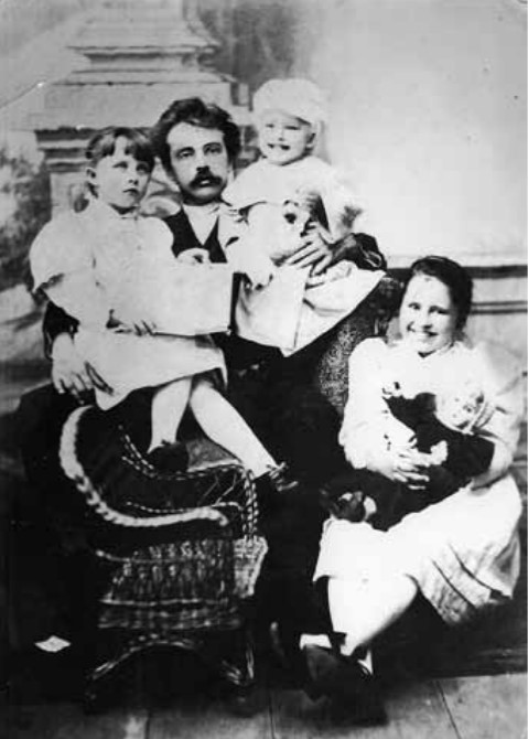 Natalia, Igor, and Olga Skarzhynsky, (children of Kateryna Skarzhynska) with their tutor, Sergiy Kulzynskiy